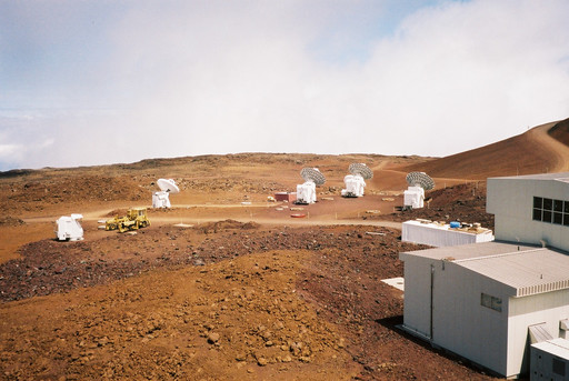 The Submillimeter Array on Mauna Kea, Hawai'i.